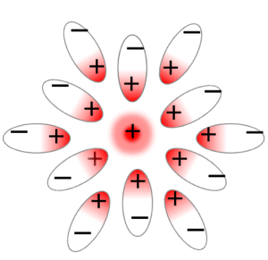 Image of a anti-screening effect